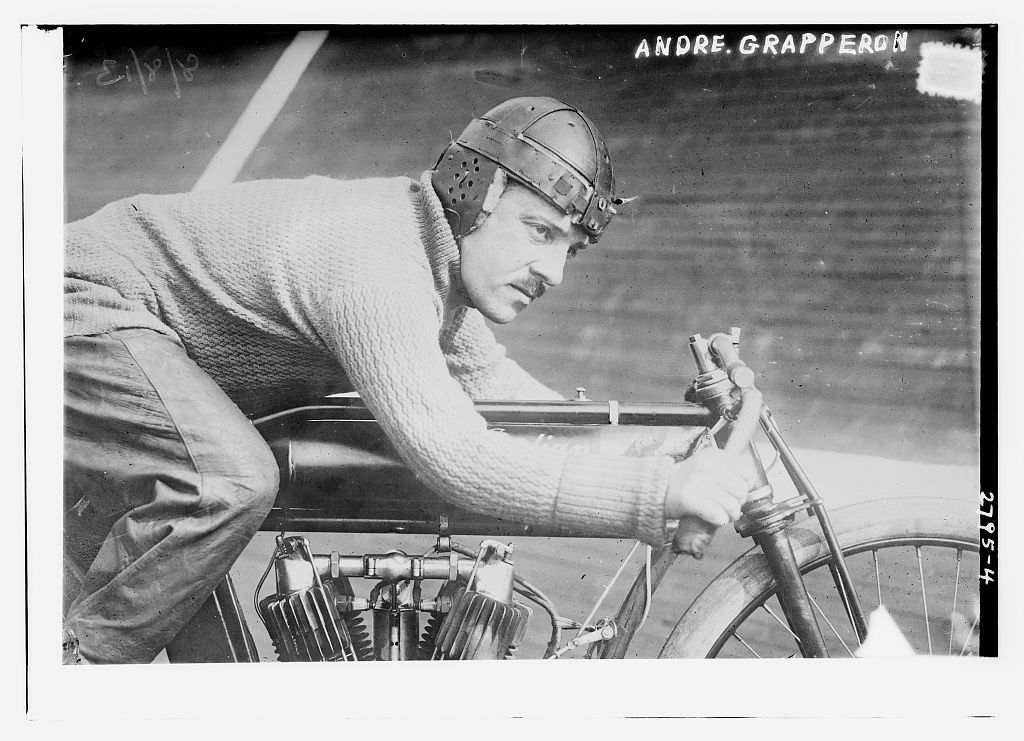 Bain News Service,, publisher. Andre Grapperon [between ca. 1910 and ca. 1915] 1 negative : glass ; 5 x 7 in. or smaller. Notes: Title from unverified data provided by the Bain News Service on the negatives or caption cards. Forms part of: George Grantham Bain Collection (Library of Congress). Format: Glass negatives. Repository: Library of Congress, Prints and Photographs Division, Washington, D.C. 20540 USA, General information about the Bain Collection is available at Persistent URL: Call Number: LC-B2- 2795-4 This photo has notes. Move your mouse over the photo to see them.